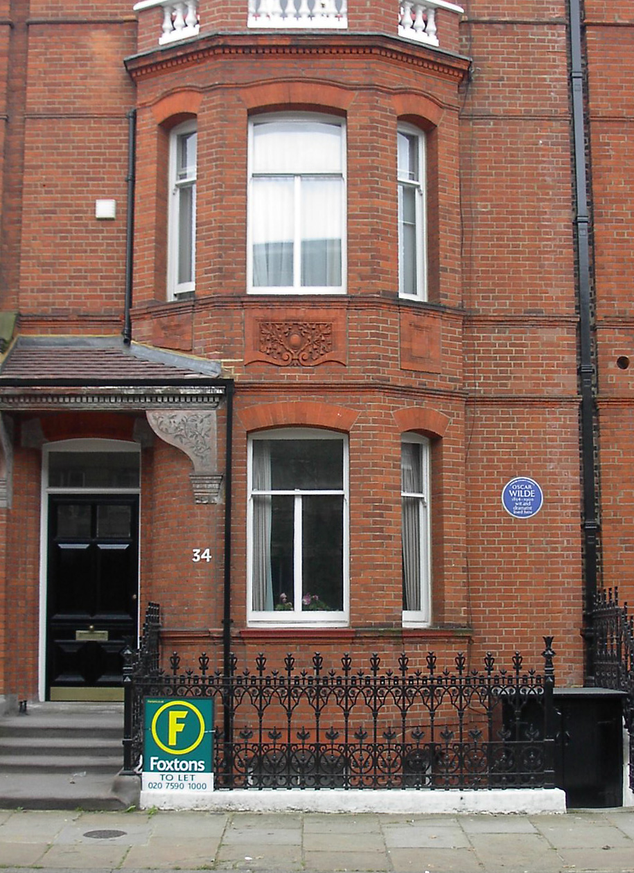 Photo taken by User:Adam Carr, June 2002